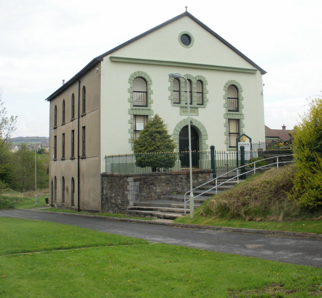 Ramoth Christian Centre, Hirwaun